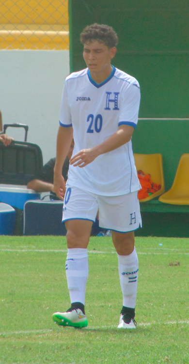 Jhow Benavidez, 2015